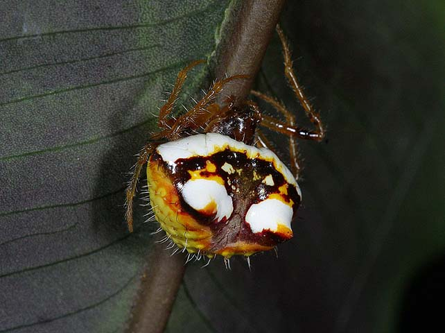 Poecilopachys australasia from New Guinea.